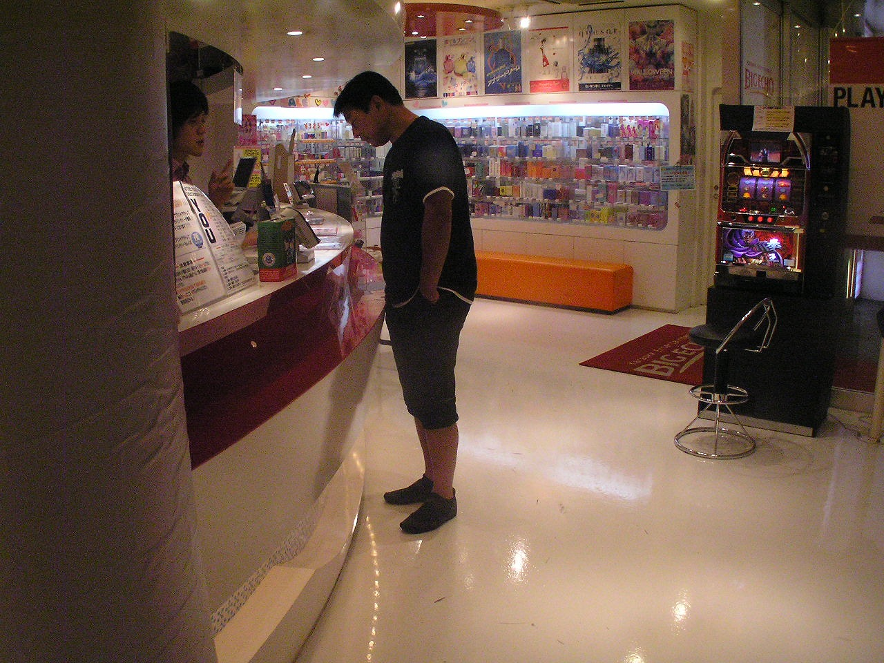 karaoke-Big echo